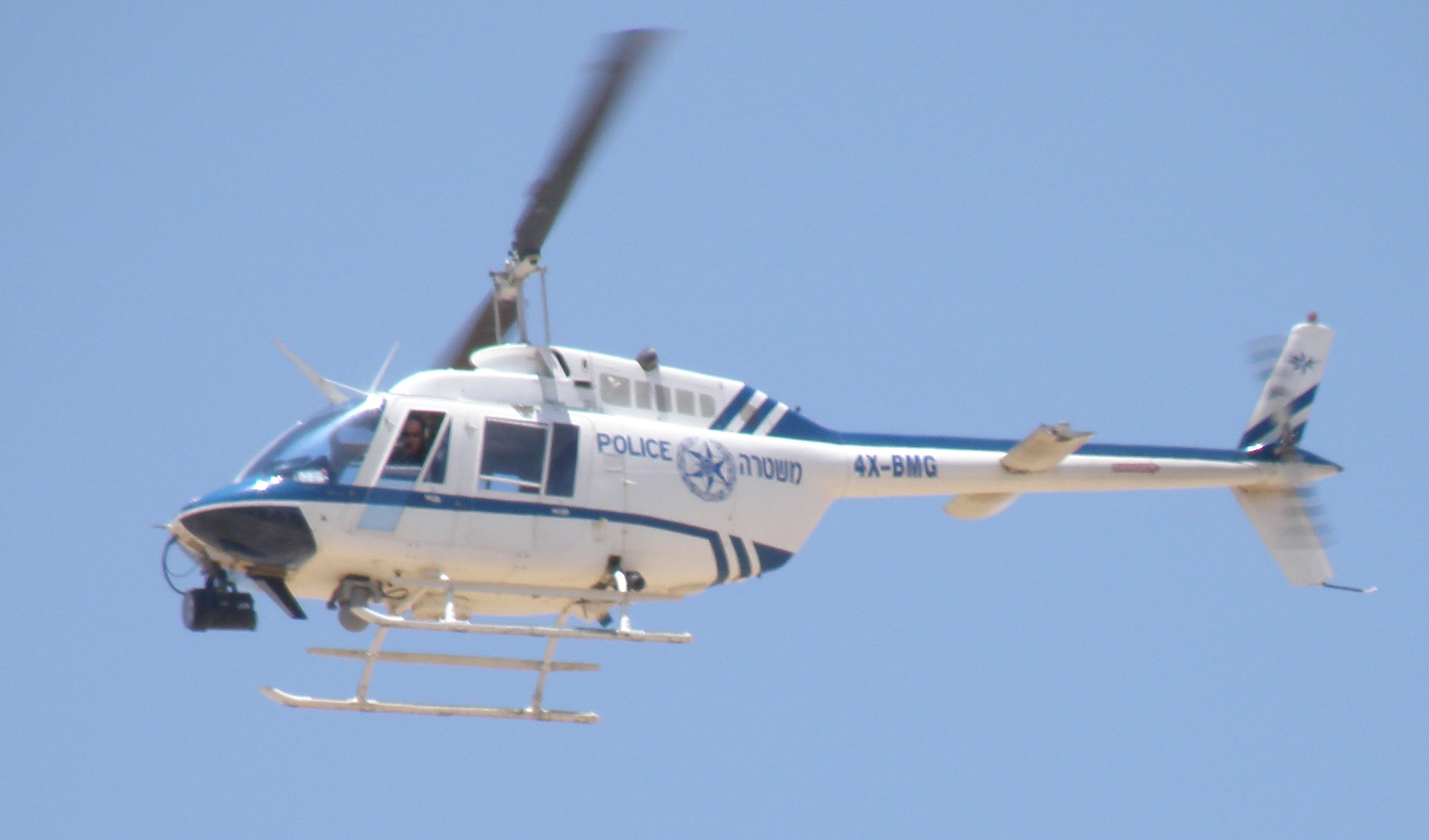 ILPD Bell 206 (Jet Ranger III)